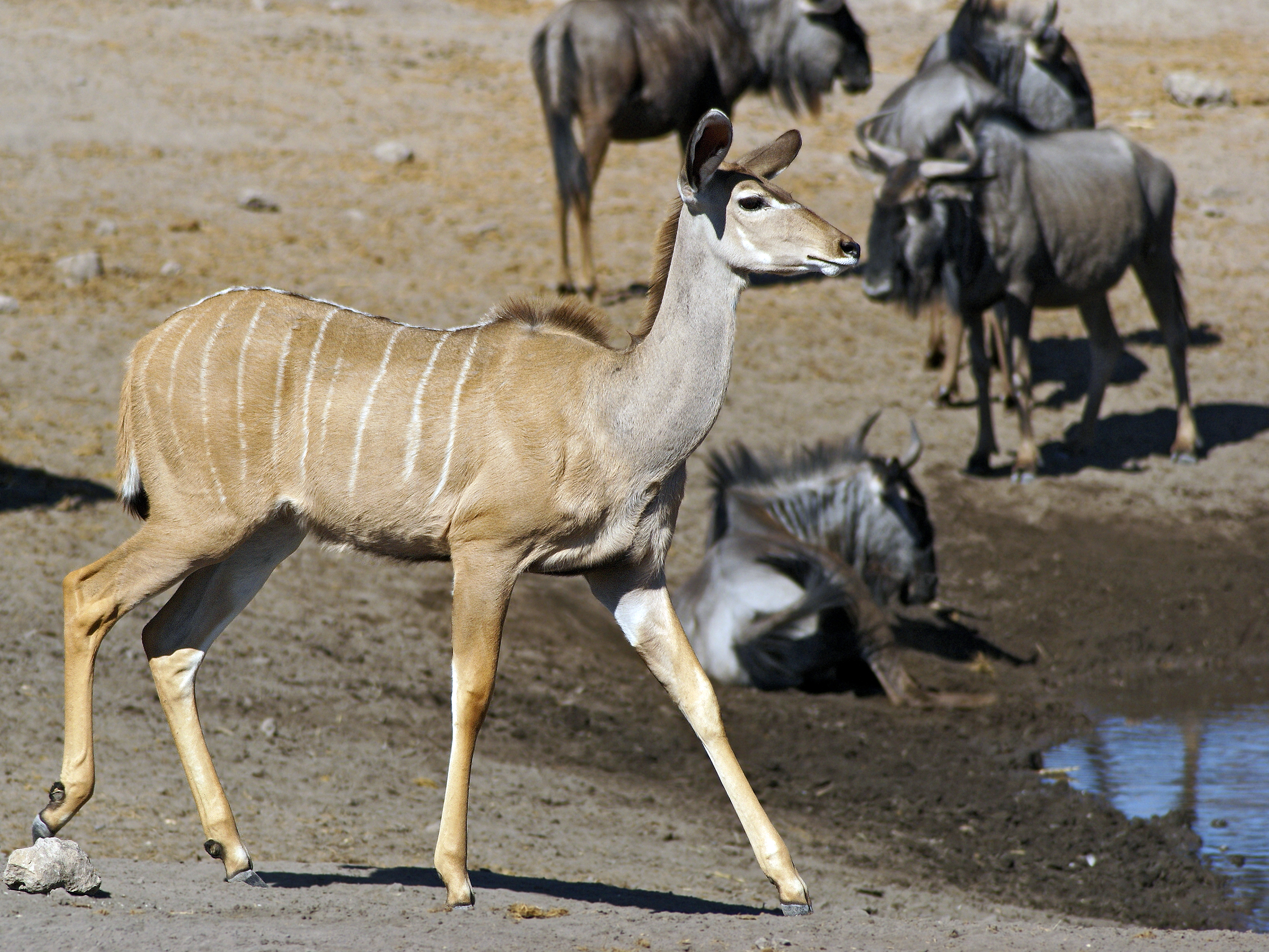 A Greater Kudu cow at Chudop waterhole, Etosha, Namibia